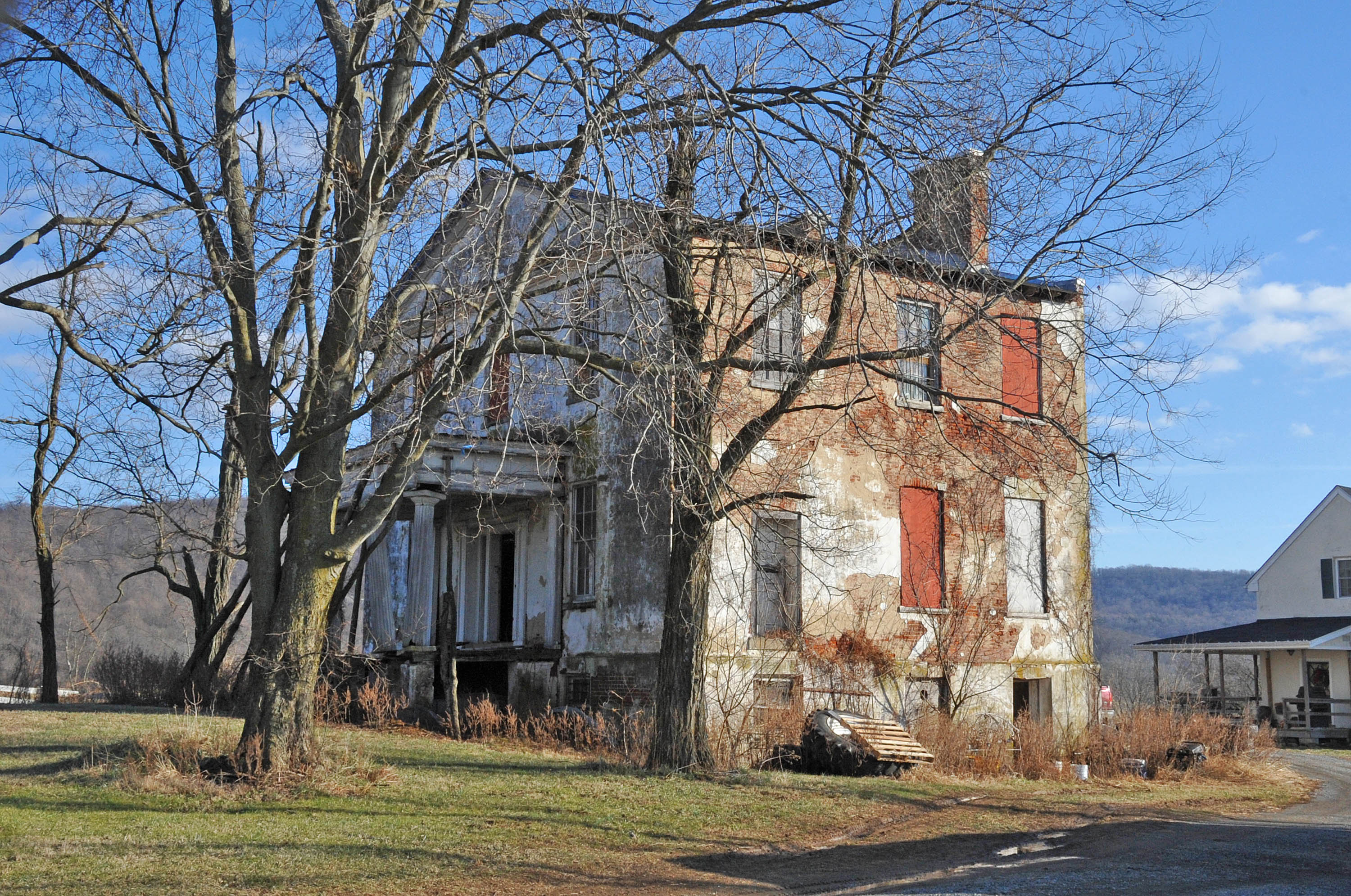 CLOVER HILL 1835 GREEK REVIVAL; CARTERS RUN ROAD IS THE ONLY PAVED ROAD YOU A VERY LARGE DISTRICT.